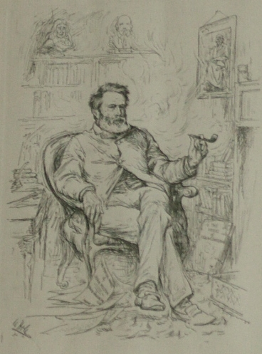 Engraved portrait of David Masson (1822-1907) by W B Hole (1846-1917) Edinburgh University Category:Aberdeen